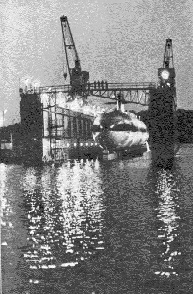 Shippingport (ARDM-4) with Philadelphia (SSN-690) high and dry in her dock. Philadelphia was undergoing a routine hull inspection at Naval Sub Base, Groton, CT., date unknown. US Navy photo